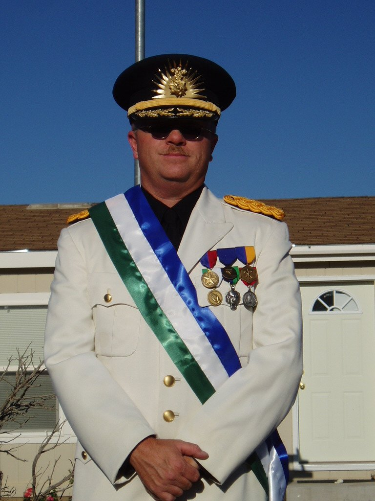 Official state portrait of Kevin Baugh, the President of the Republic of Molossia.